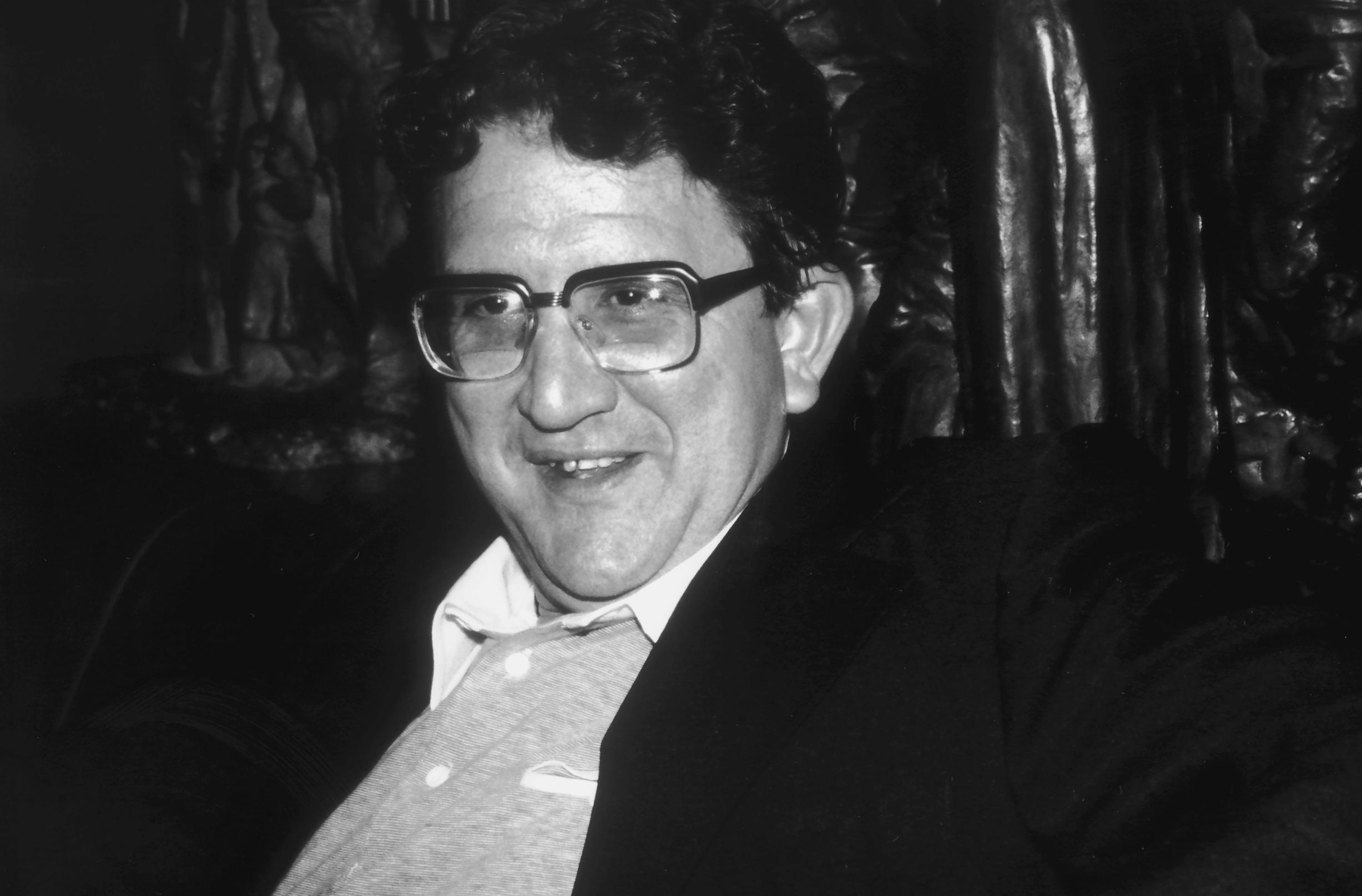 Escritor Cubano